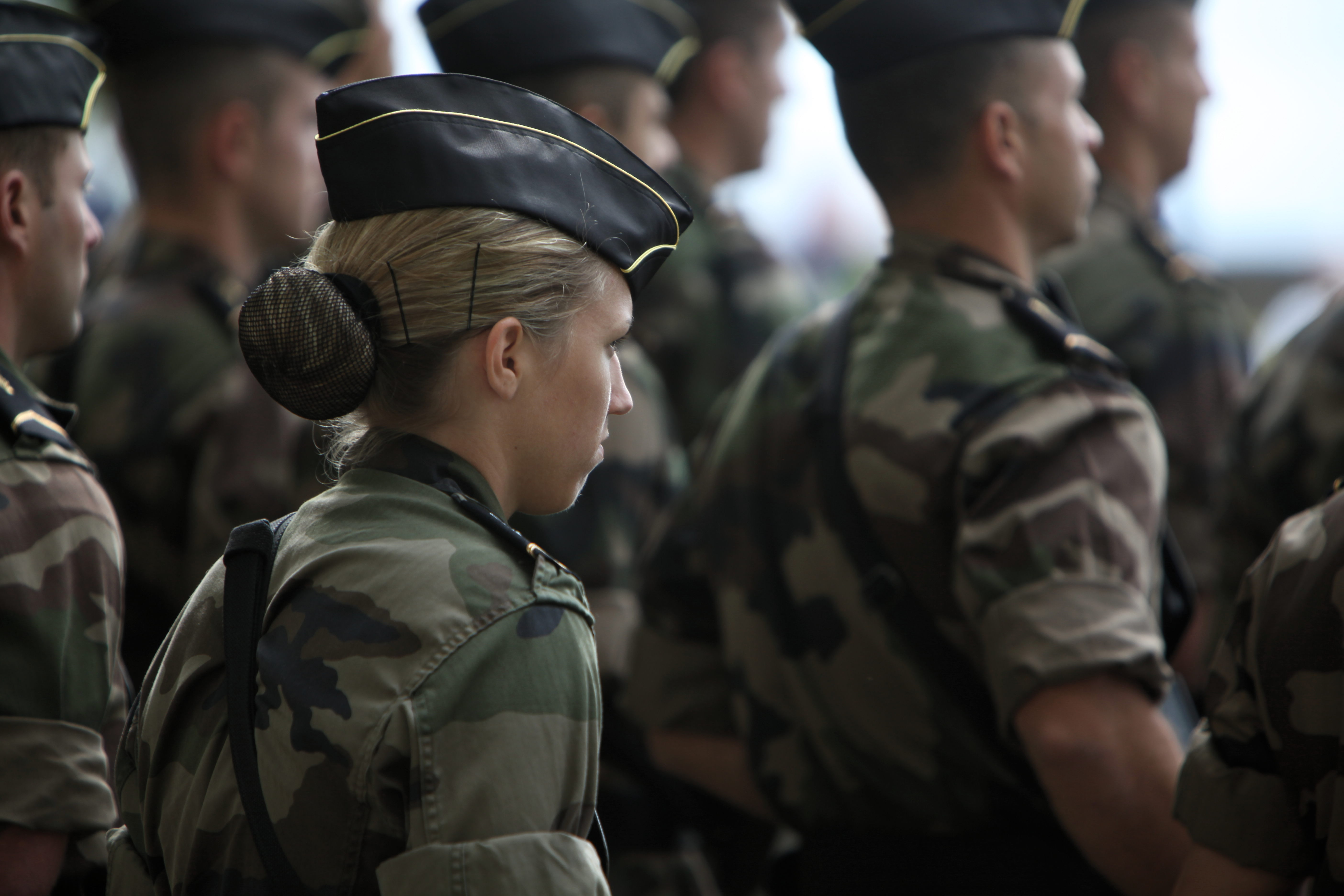 Personnel from the Gendarmerie Academy (of Chateaulin ?) attending ceremonies of the 14 July 2015 in Brest